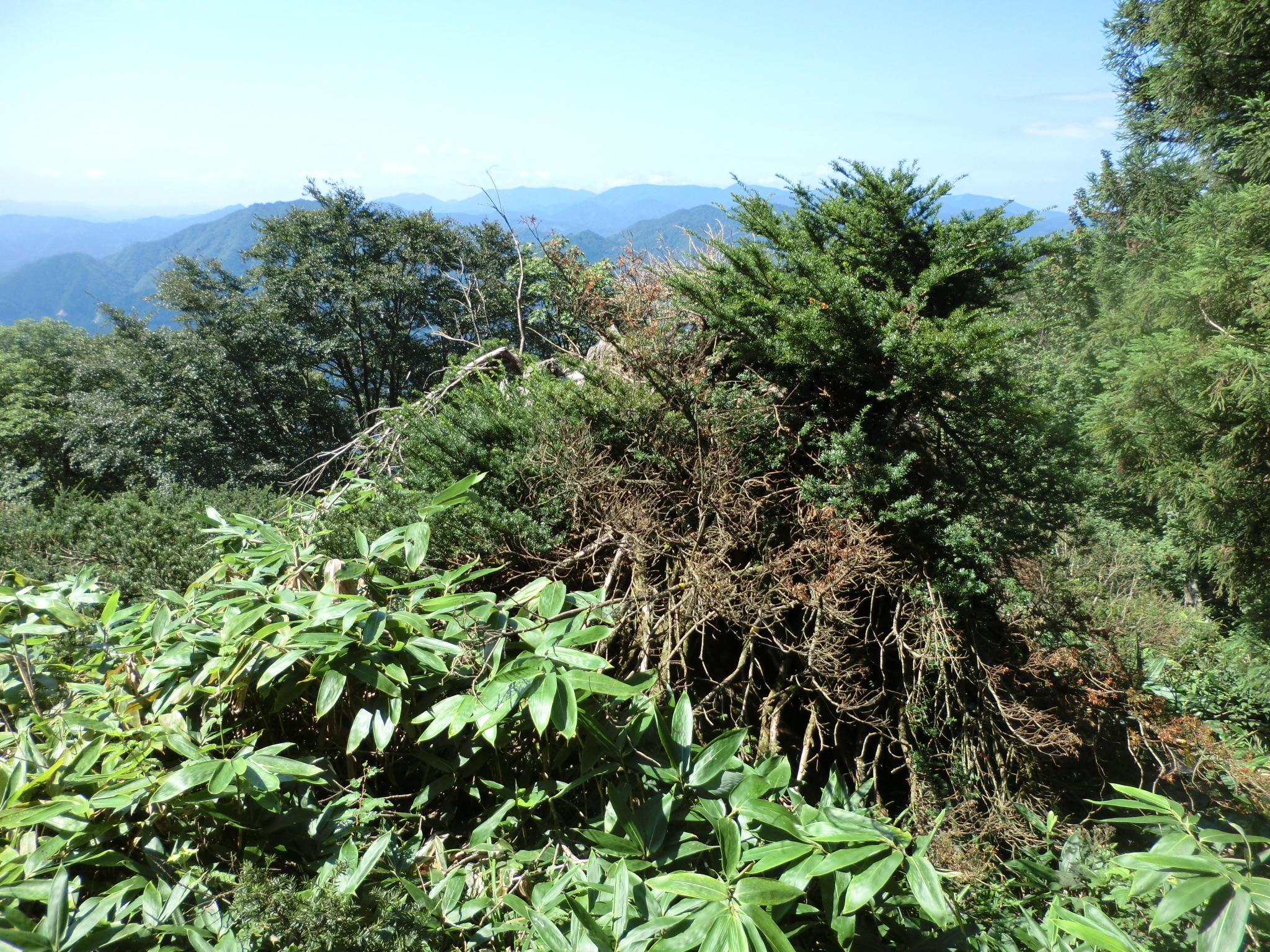 Texus cuspidata of Mt.Sentsuzan